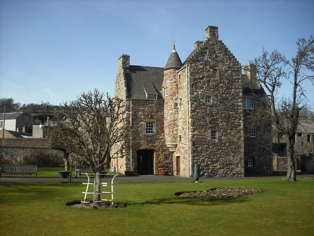 Mary, Queen of Scots Visitor Centre. This 16 Cent. house was where Mary Queen of Scots stayed during her visit to Jedburgh in 1566. Coat of Arms 1208039